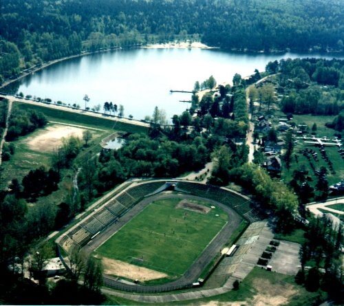 Skarżysko-Kamienna – „Rejów” lake and stadium